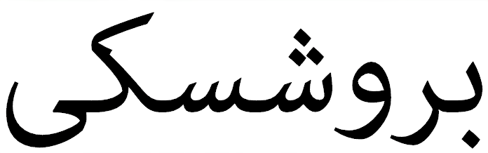 Burushaski (/bʊrʊˈʃæski/;[6] Burushaski: بروشسکی, romanized: burū́šaskī) is a language isolate spoken by Burusho people who reside almost entirely in northern Gilgit-Baltistan, Pakistan